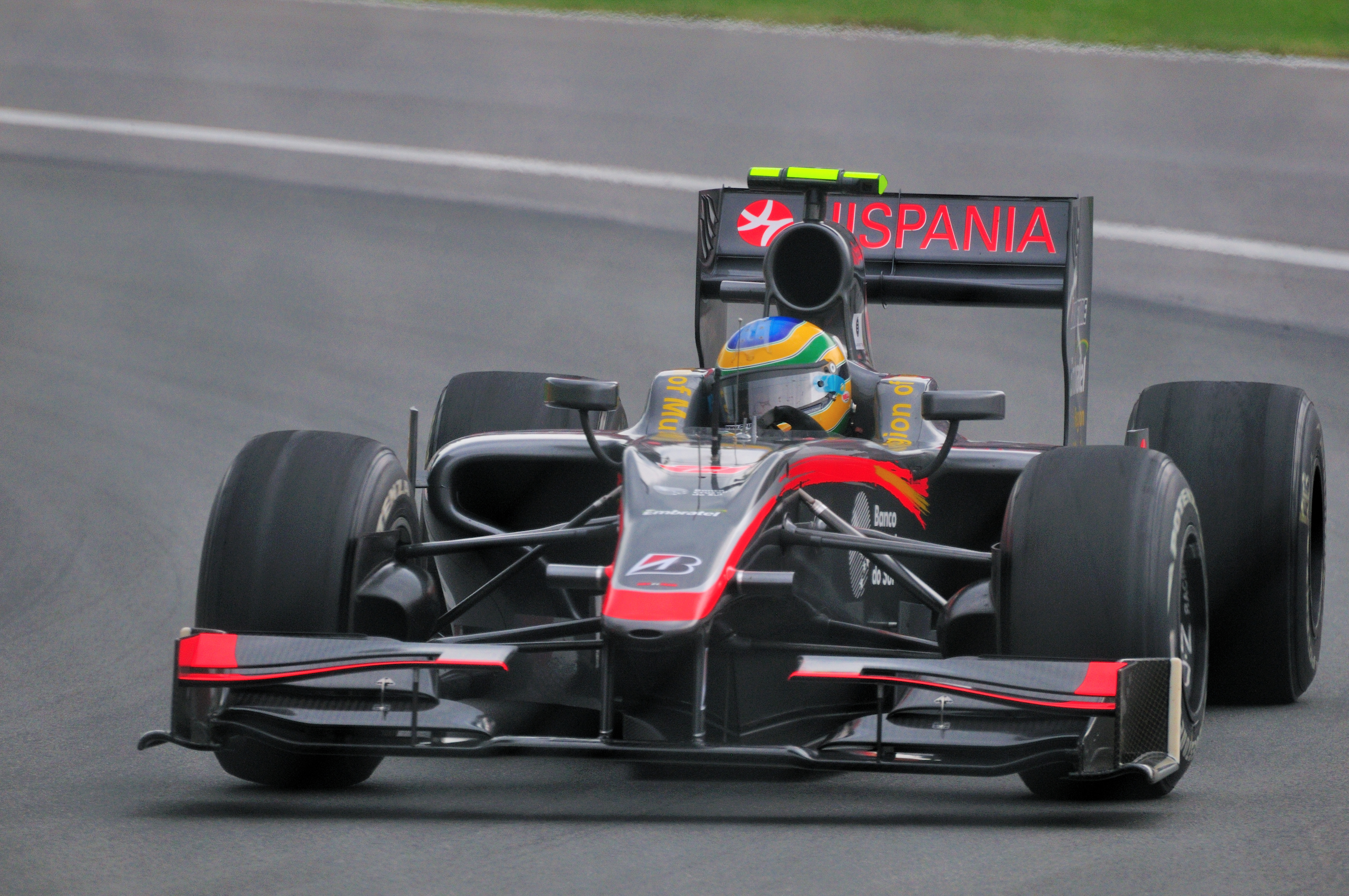 Hispania Racing driver Bruno Senna of Brazil in the Senna Corner (2010 Canada GP)